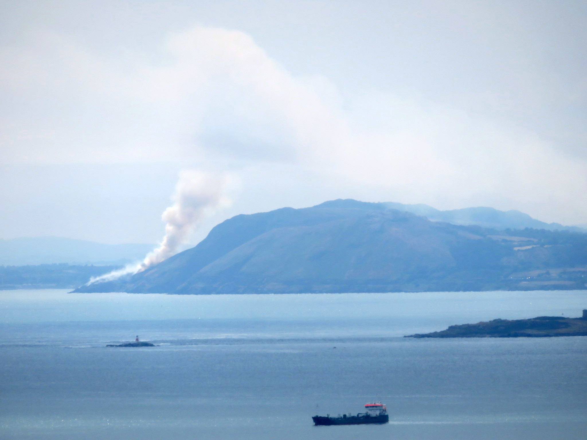 A wildfire on Bray Head in Ireland in July 2018. A campfire broke loose and consumed gorse on the hill. Homes were evacuated, train service was halted, and the Air Corps carried water from the sea to the fire. The picture was taken southwards across Dublin Bay from 21 kilometres (13 miles) away on Howth Hill. (A 100-metre granite island with lighthouse called The Muglins appears at bottom left.) See 2018 in Ireland (July 13) for incident description.